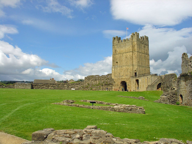 Bailey and keep: Richmond Castle